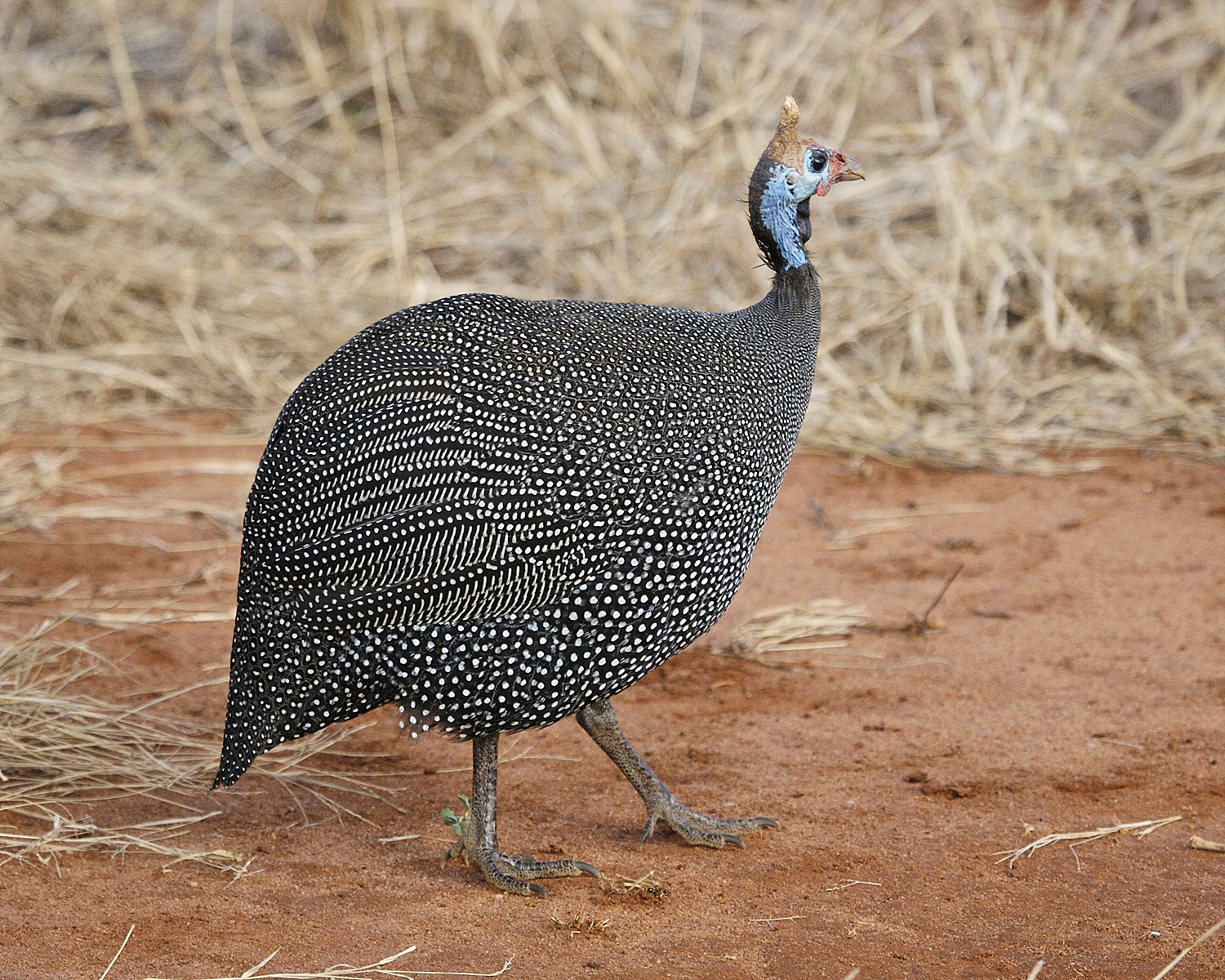 Helmeted guineafowl in Tsavo East, Kenya, on 26 August 2008